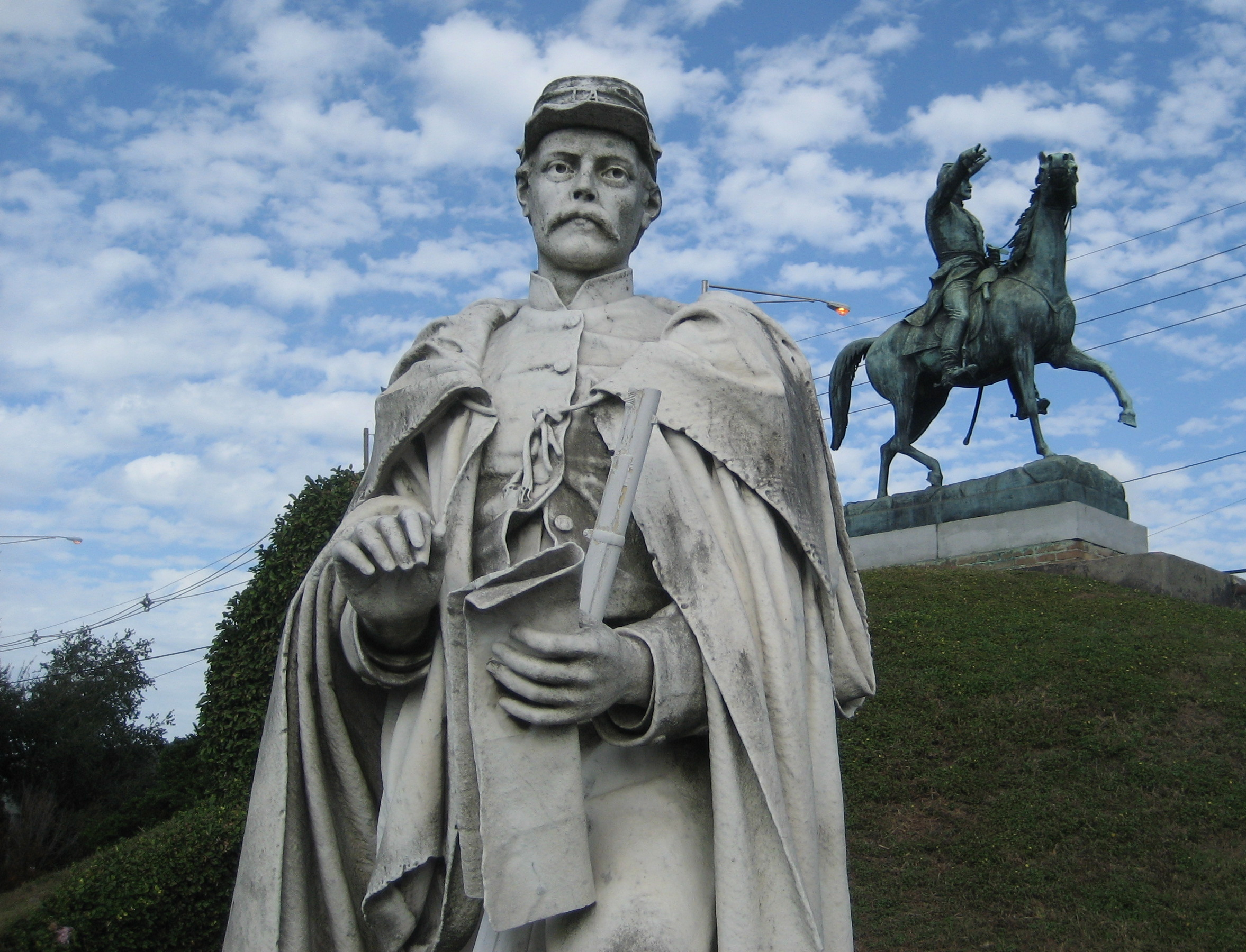 Metairie Cemetery, New Orleans. In front of "Army of Tennessee" Confederate memorial tomb is this 1885 scupture by Alexander Doyle (1857 - 1922). The life size statue represents a Confederate officer about to read the roll of the dead during the American Civil War. The statue is said to have been modeled after Sergeant William Brunet of the Louisiana Guard Battery, but is intended to symbolically represent all Confederate soldiers. In the background is Doyle's 1877 equestrian bronze of General Albert Sidney Johnston.